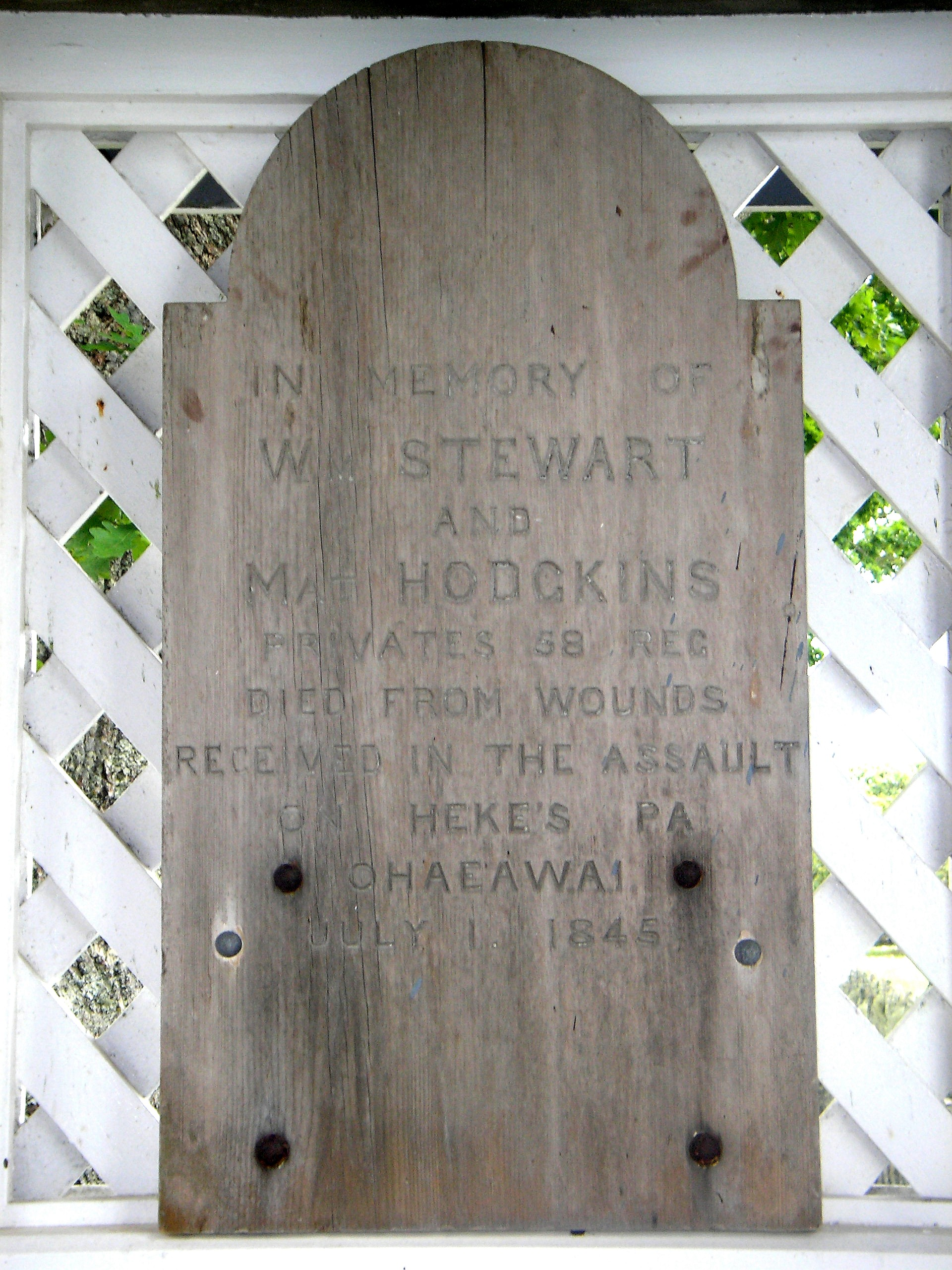 Te Waimate mission, Far North District, Northland, New Zealand. Headplate of two soldiers died during Battle of Ohaeawai (see also Flagstaff War).